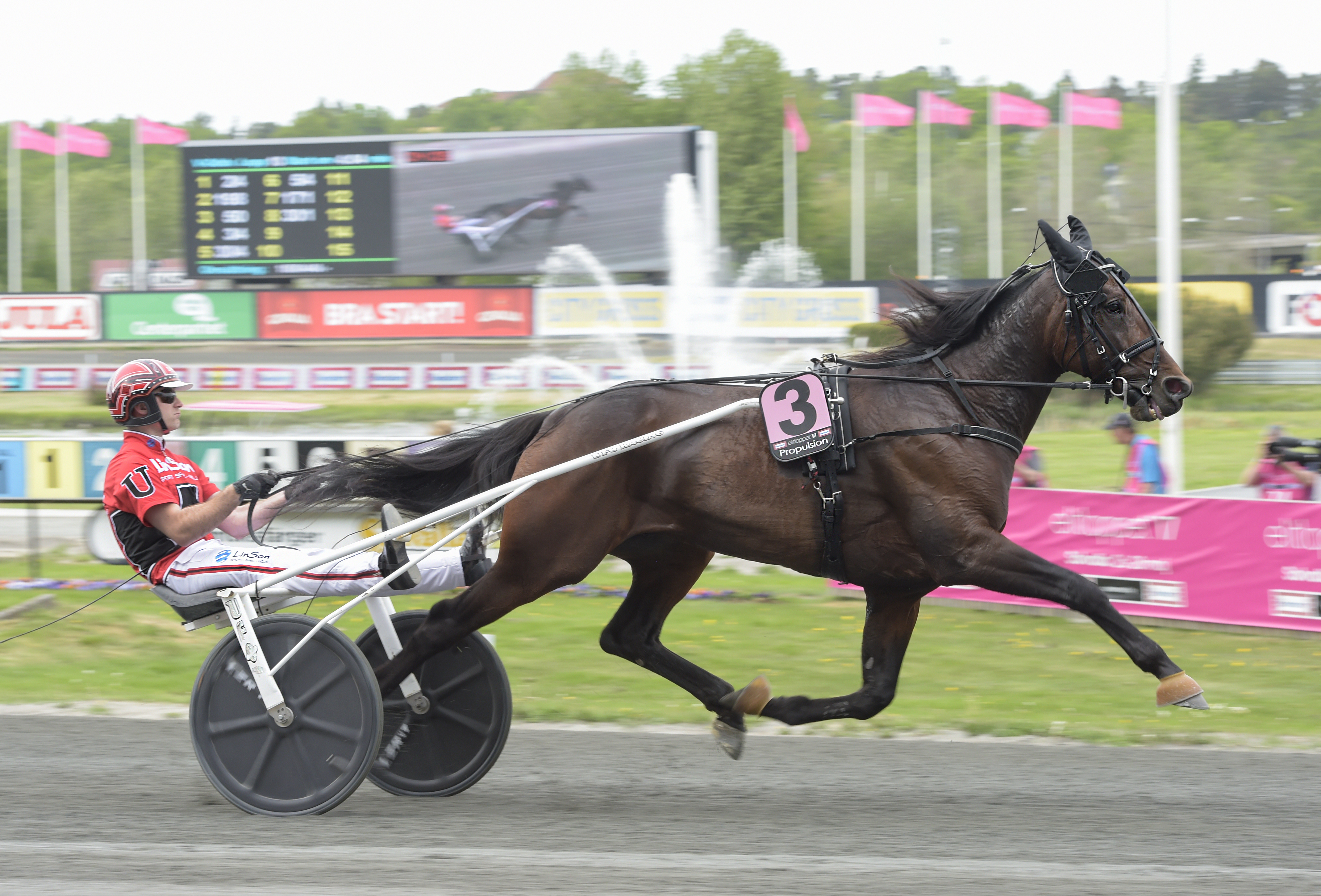 Propulsion and driver Johan Untersteiner, Elitloppet 2017-05-28.